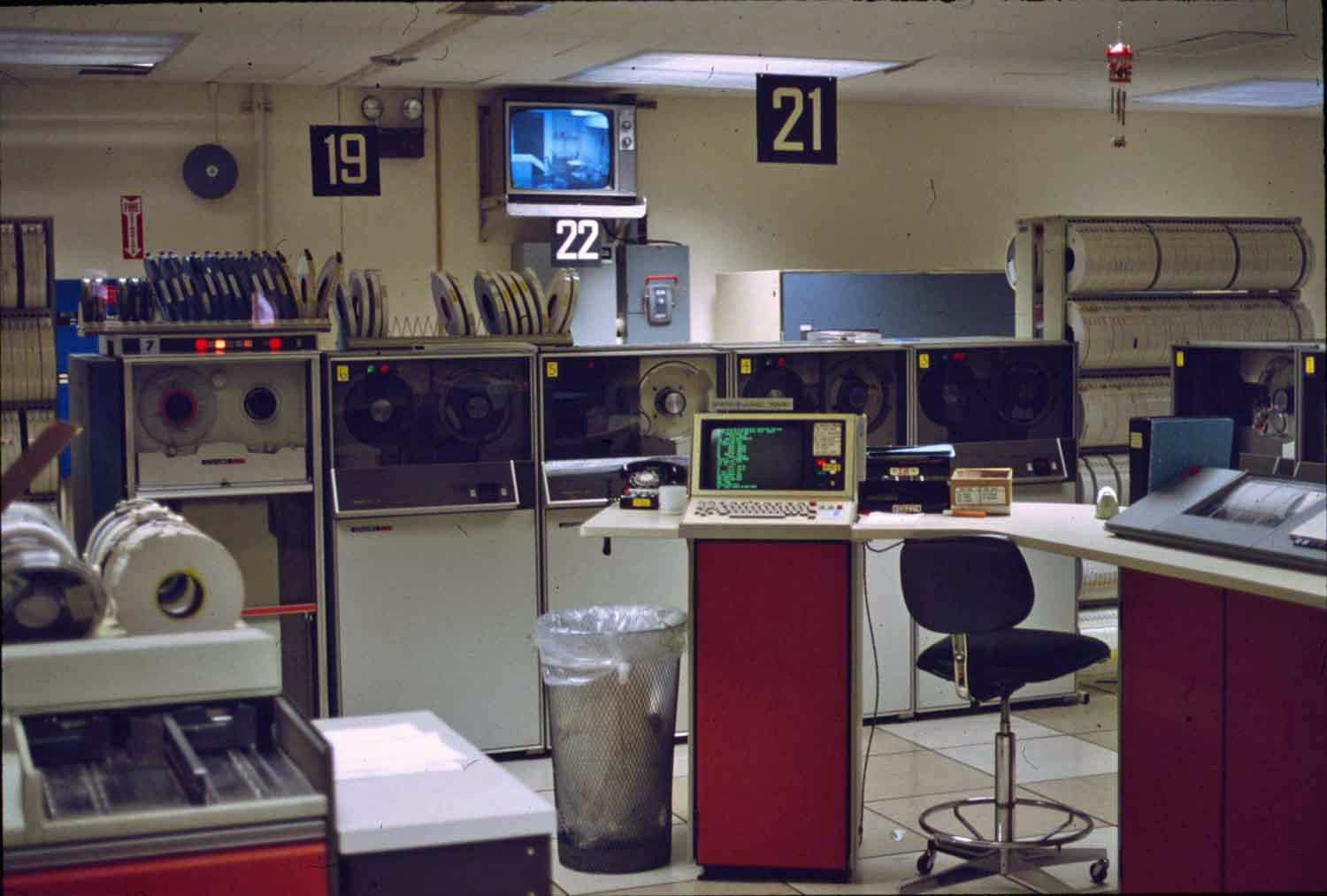 The Computer Operations Room using Sperry/Univac 1100/80 in 1981